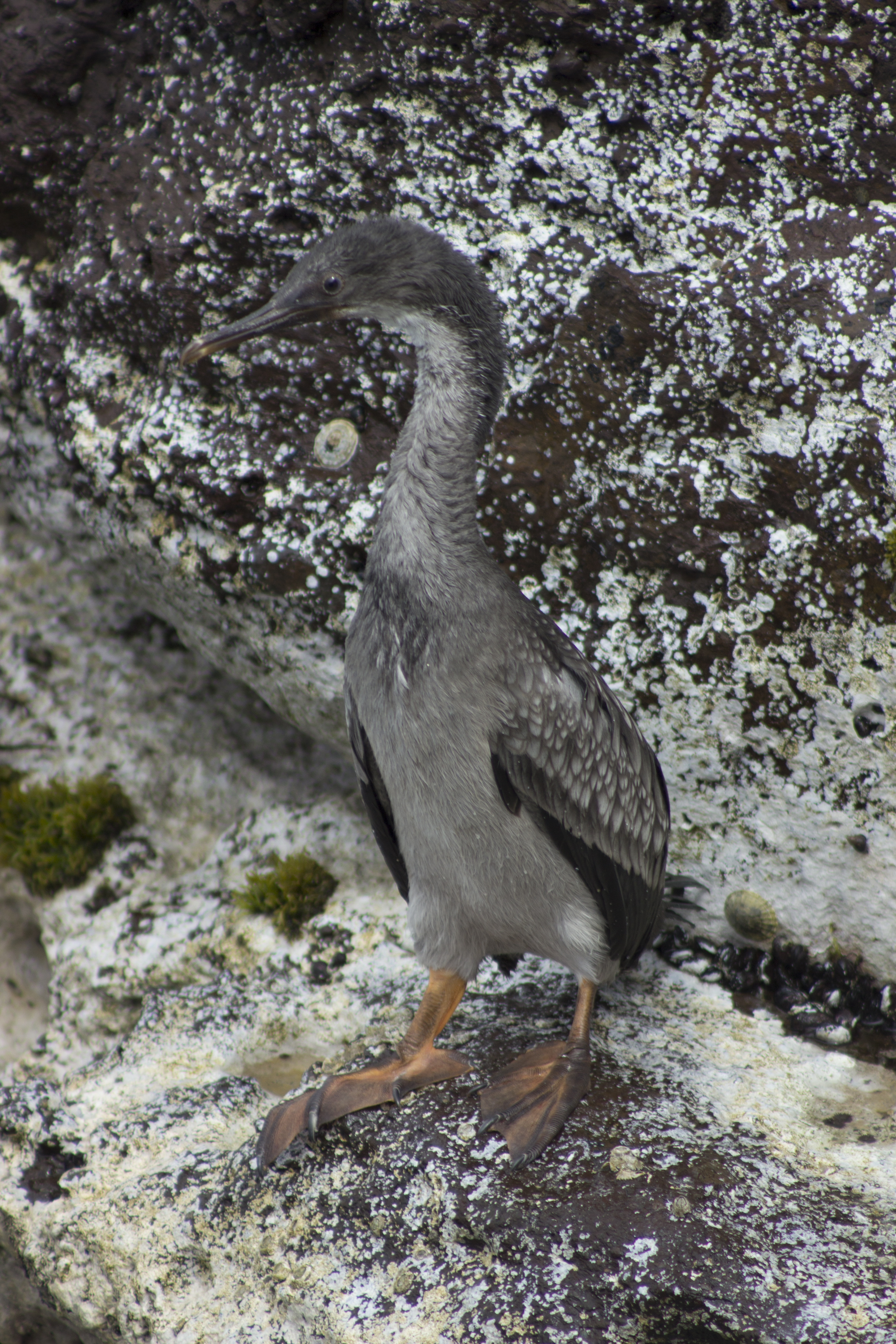 Phalacrocorax gaimardi